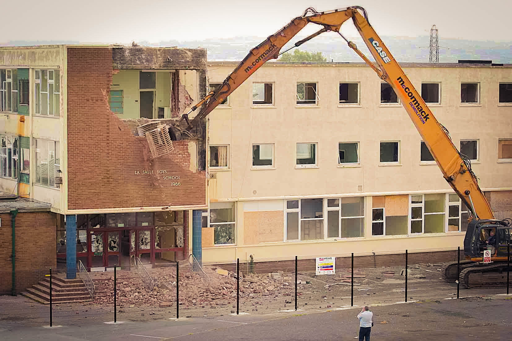 La Salle Boys School which was built in 1966 and demolition was started on 18th July 2005.